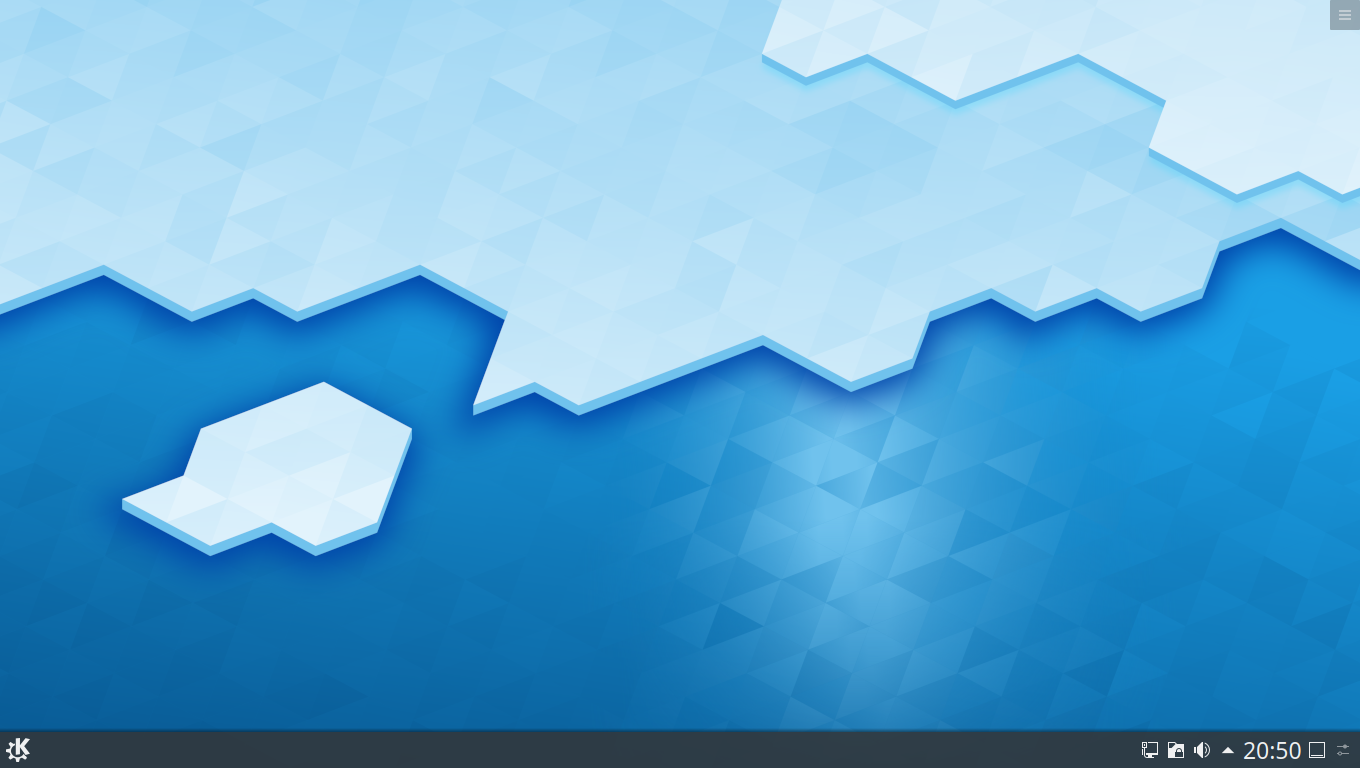 Screenshot of Kubuntu 19.10